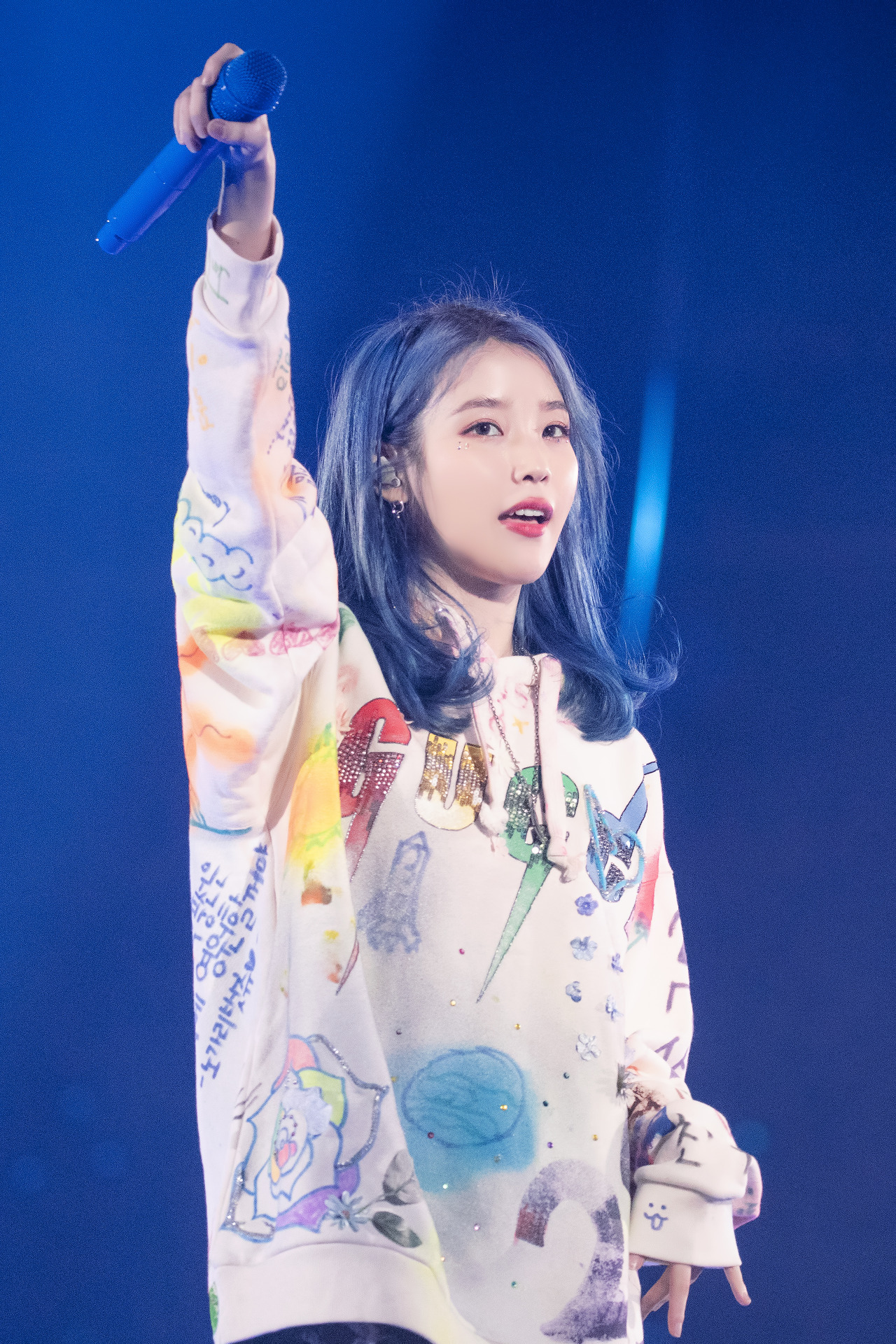 IU in "Love Poem" Concert in Seoul on 23rd November 2019